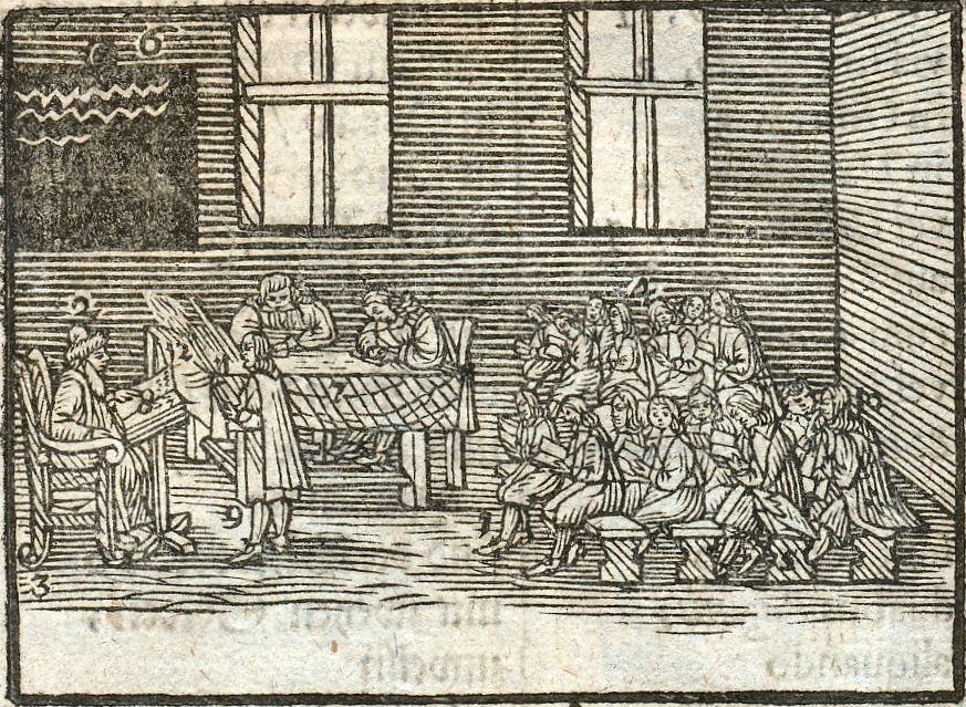 Comenius Lateinschule Zwickau